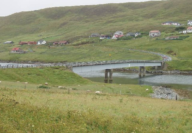 The Trondra Bridge